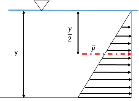 hydrostatic pressure distribution